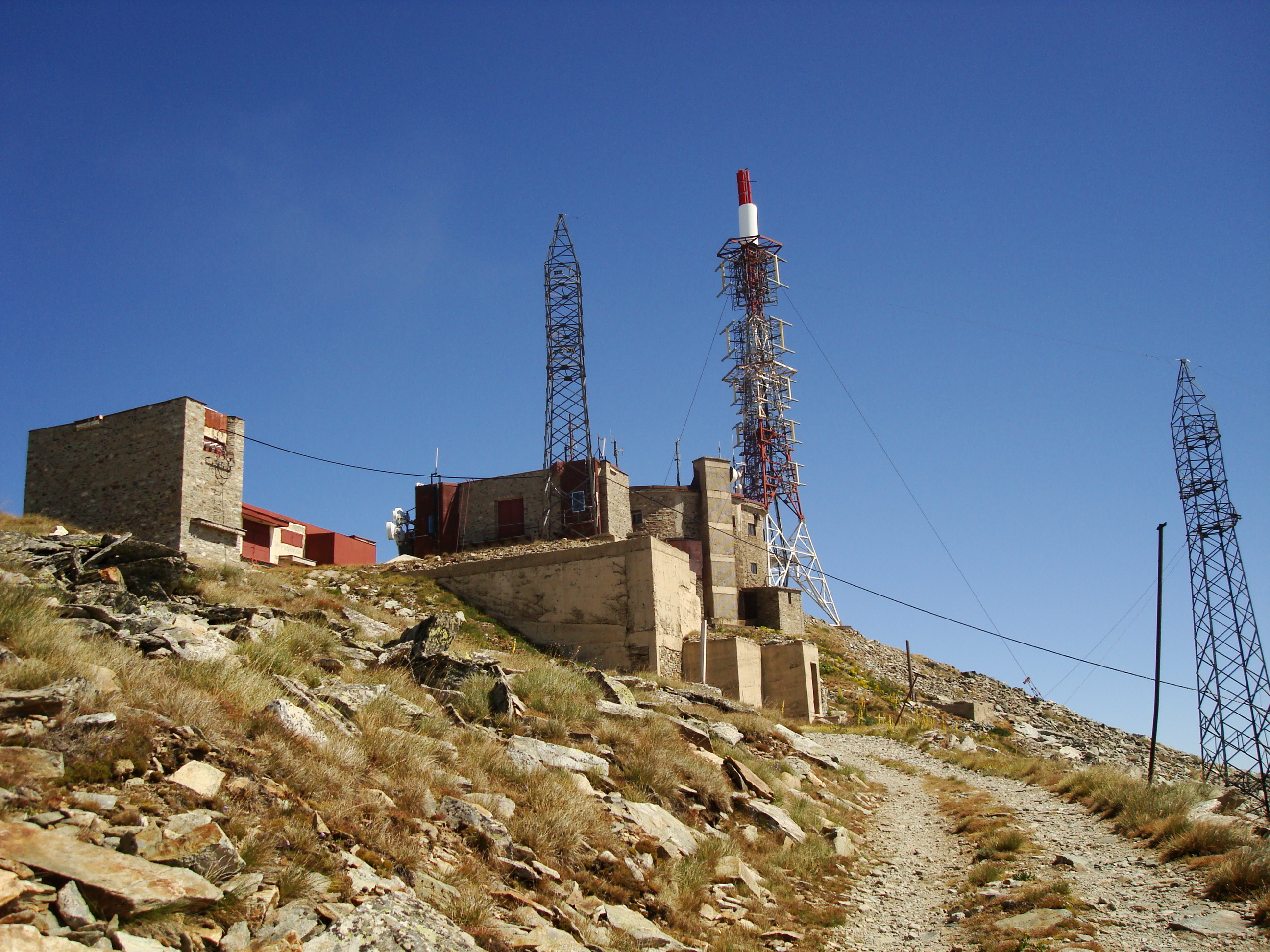 Pelister peak, 2601 m, Macedonia.